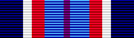 I made this image with Photoshop. DOS Thomas Jefferson Star for Foreign Service Ribbon